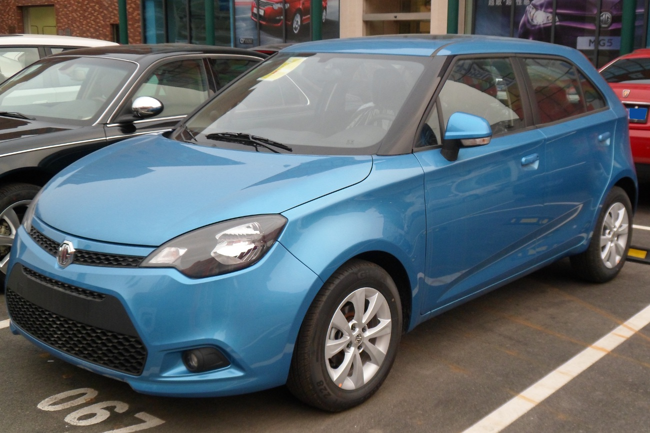 MG 3 II photographed in Shanghai, China.